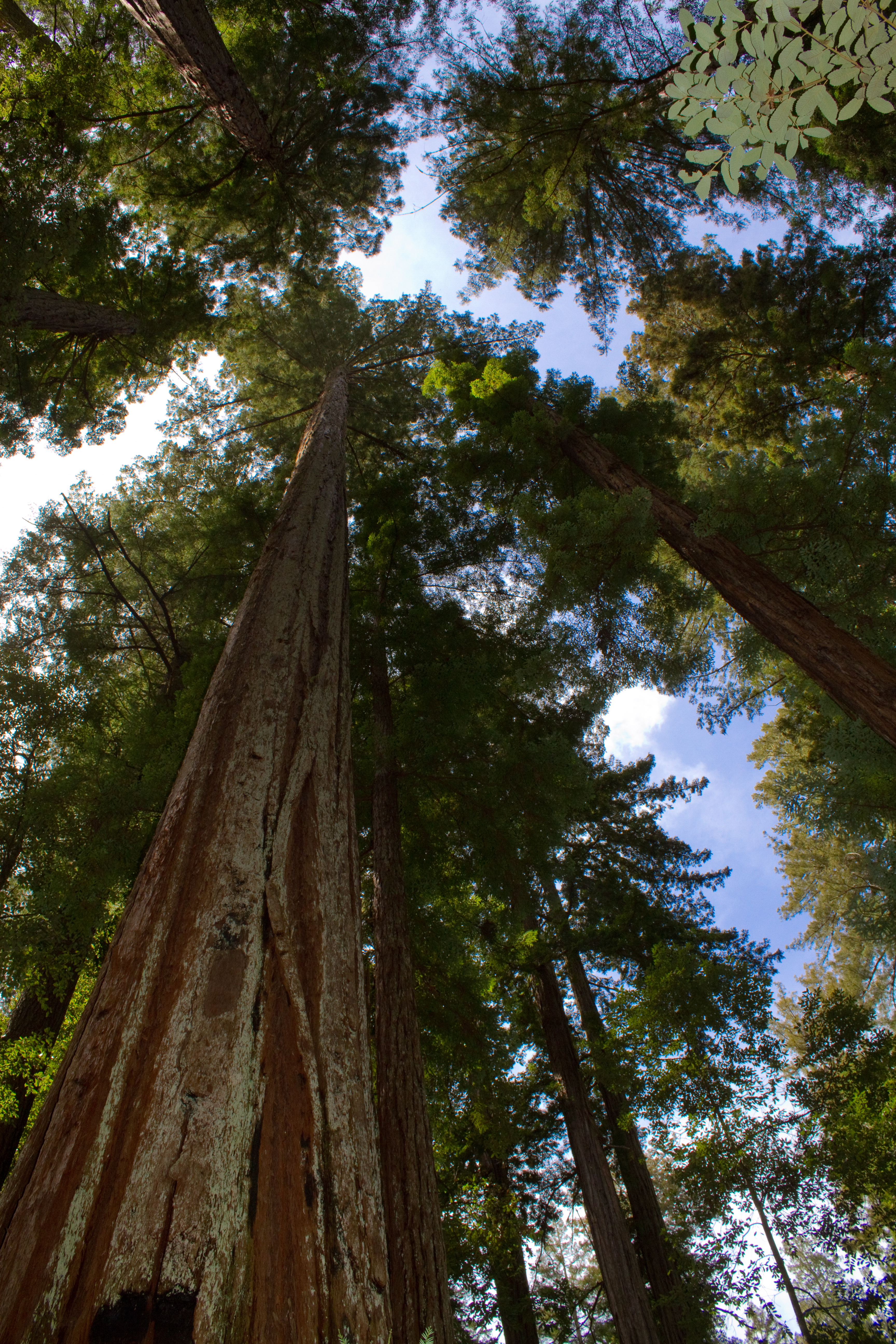 Coast Redwood Sequoia sempervirens, Big Basin Redwoods State Park, California.